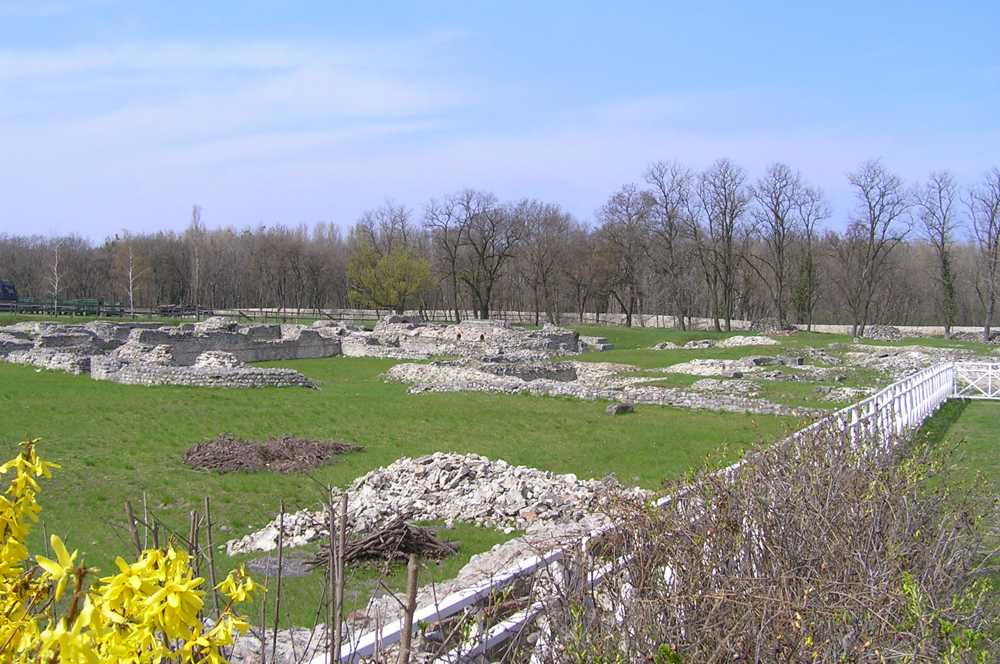 The palace ruins near Petronell. Also referred to as "large public baths". The thermae have been reconstructed since. --wg (talk) 22:38, 30 April 2011 (UTC)